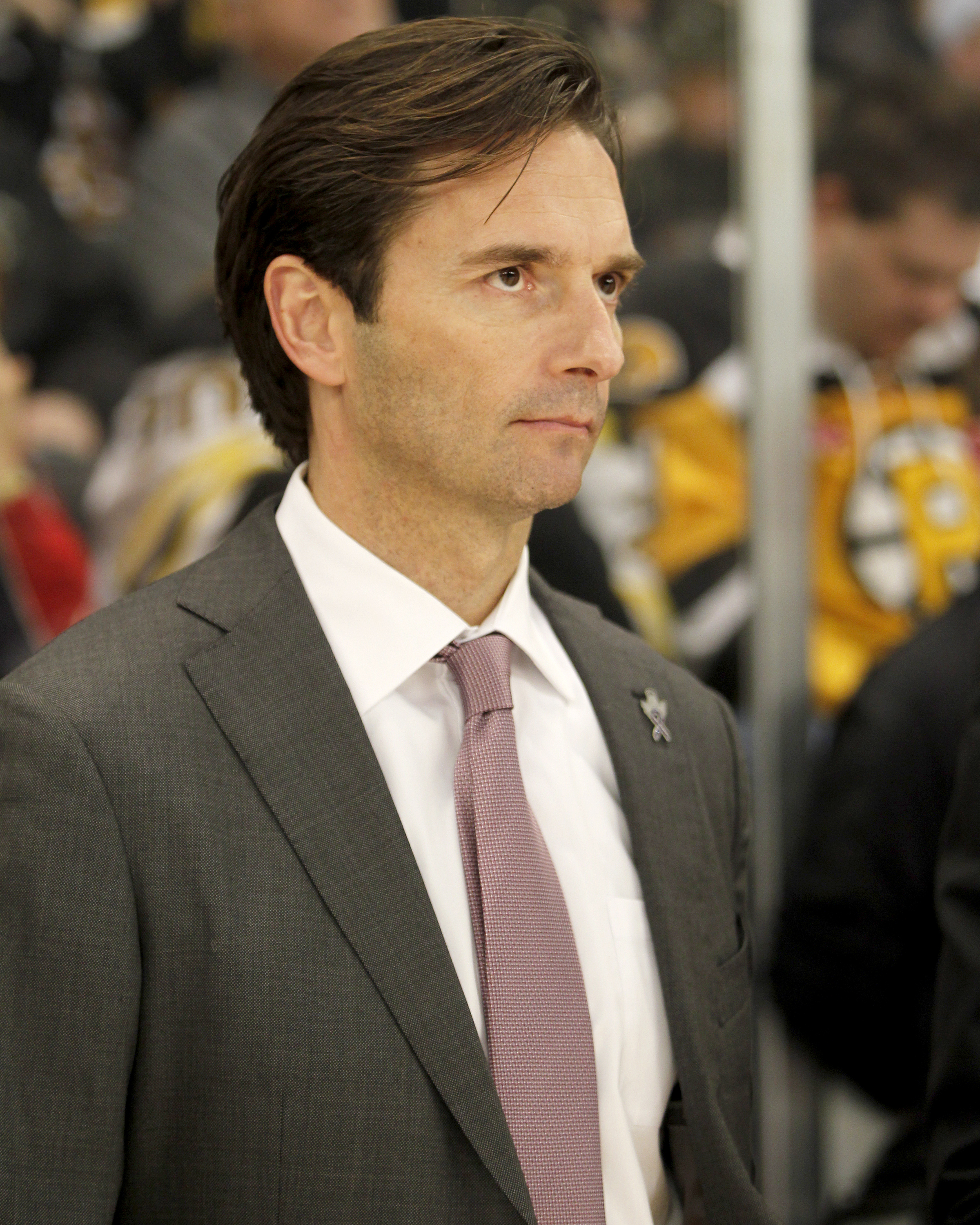 Dallas Eakins American Hockey League (AHL). 2013 All-Star Skills Competition. Taken on January 27, 2013.